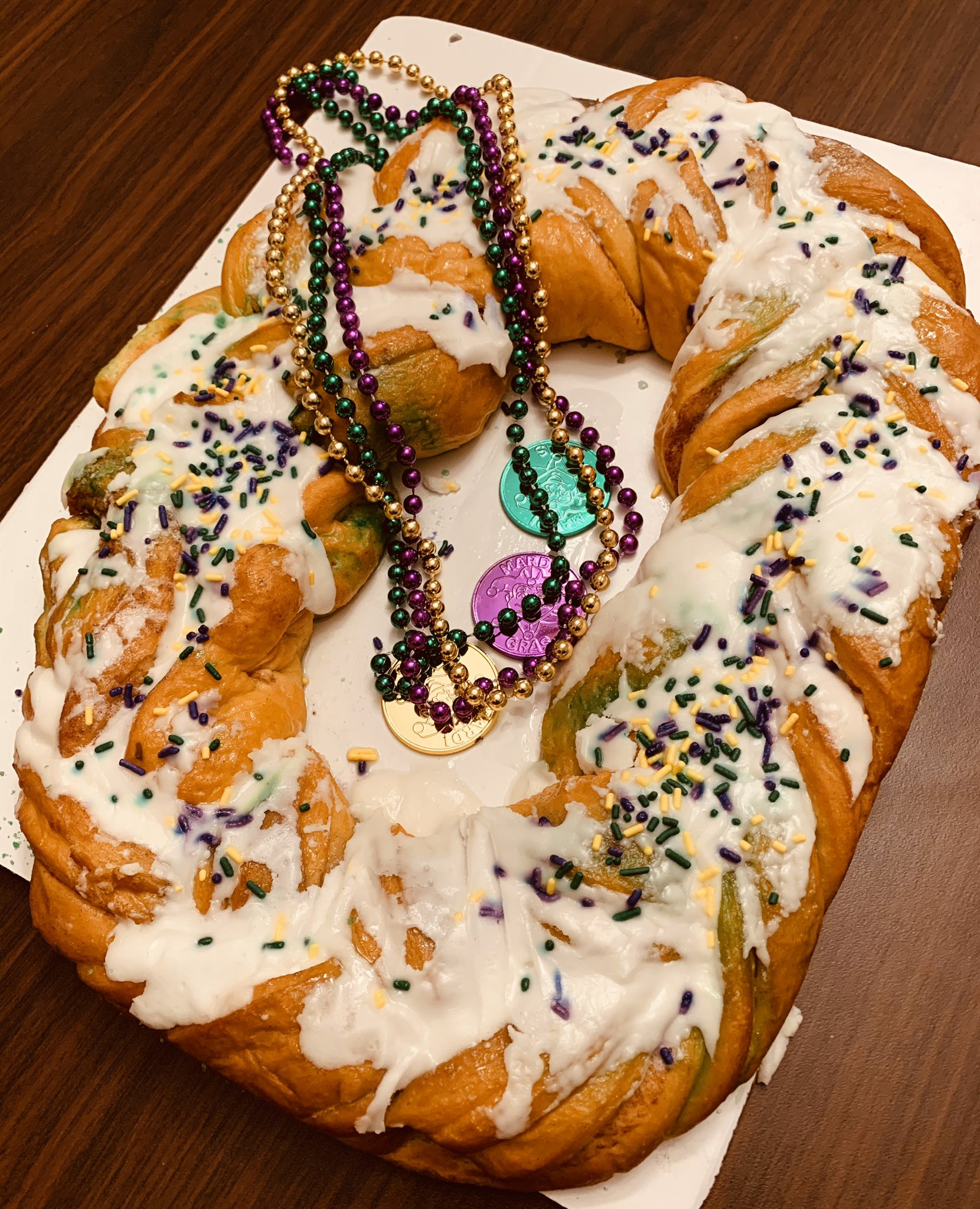 Thank you @SteveScalise for bringing a King Cake in for #TeamSchweikert! Wishing a happy #MardiGras 🎭 to everyone celebrating today 💜💛💚